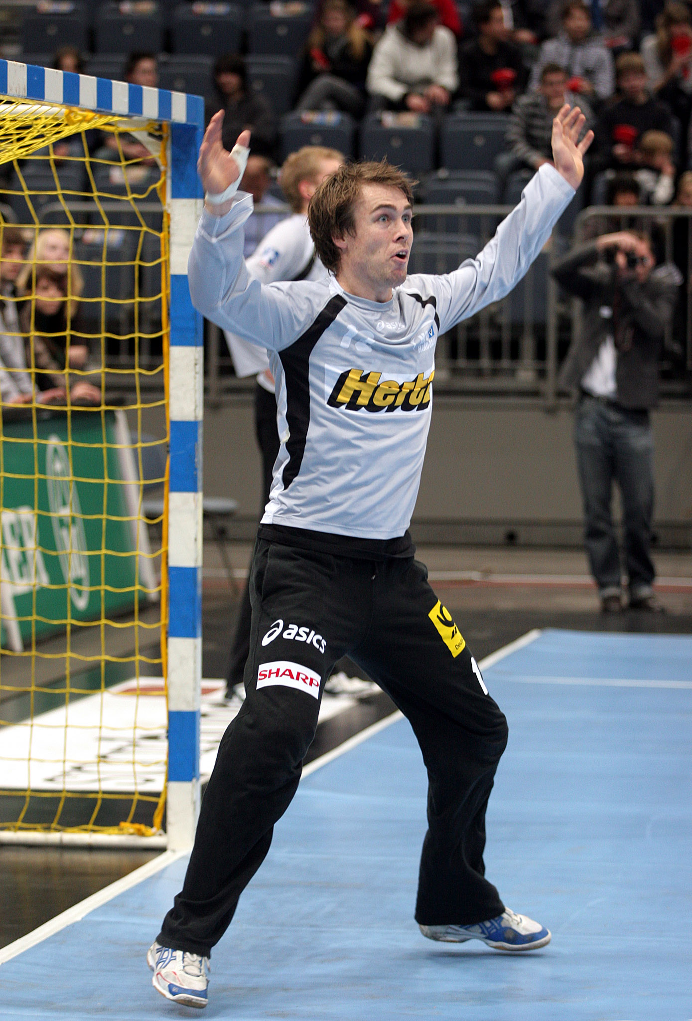 Per Sandstroem, handball goalkeeper from HSV Hamburg, on December 9th, 2008 in the Lanxess-Arena of Cologne, prior the Bundesliga game VfL Gummersbach ver. HSV Hamburg.